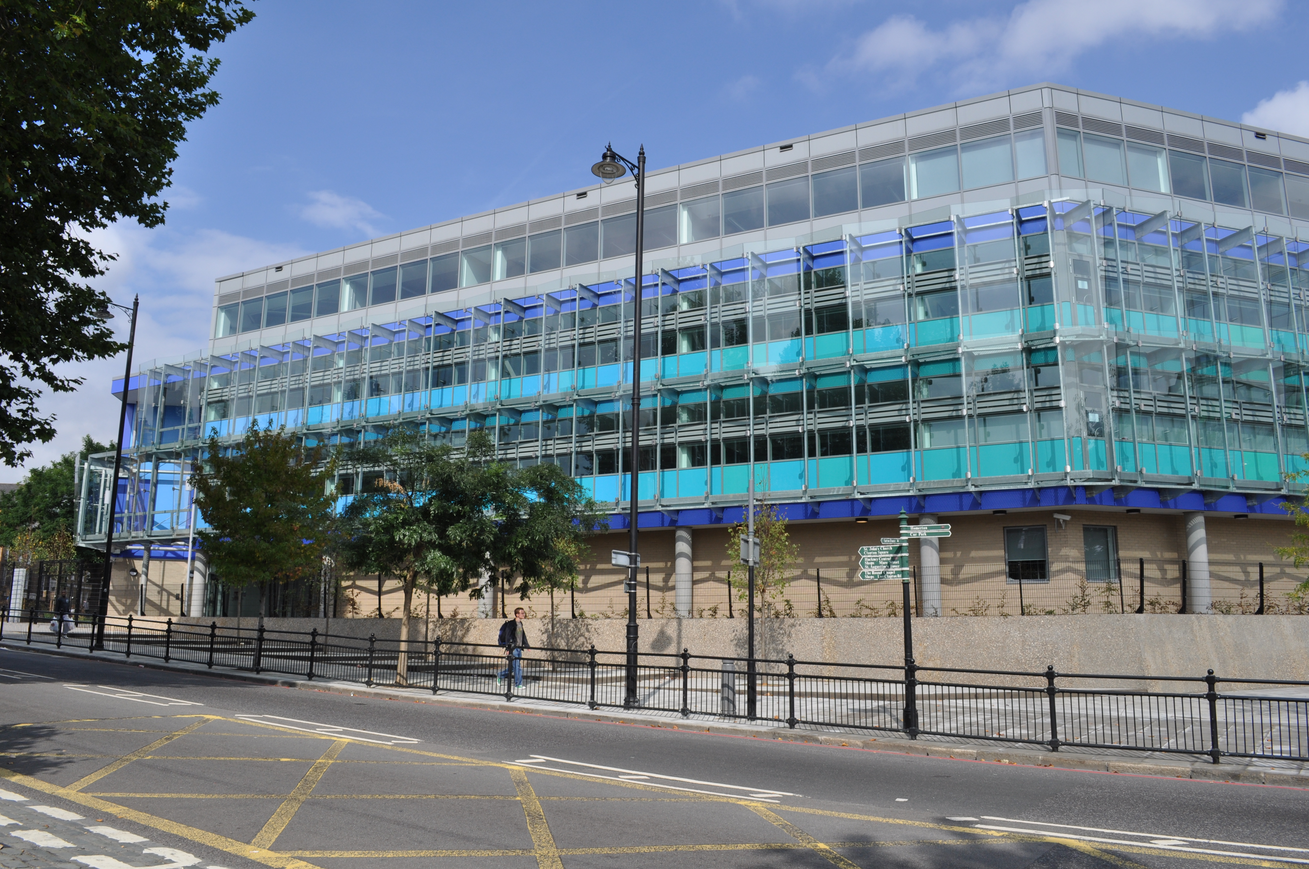 Own work, pls attribute. Kevin Thompson